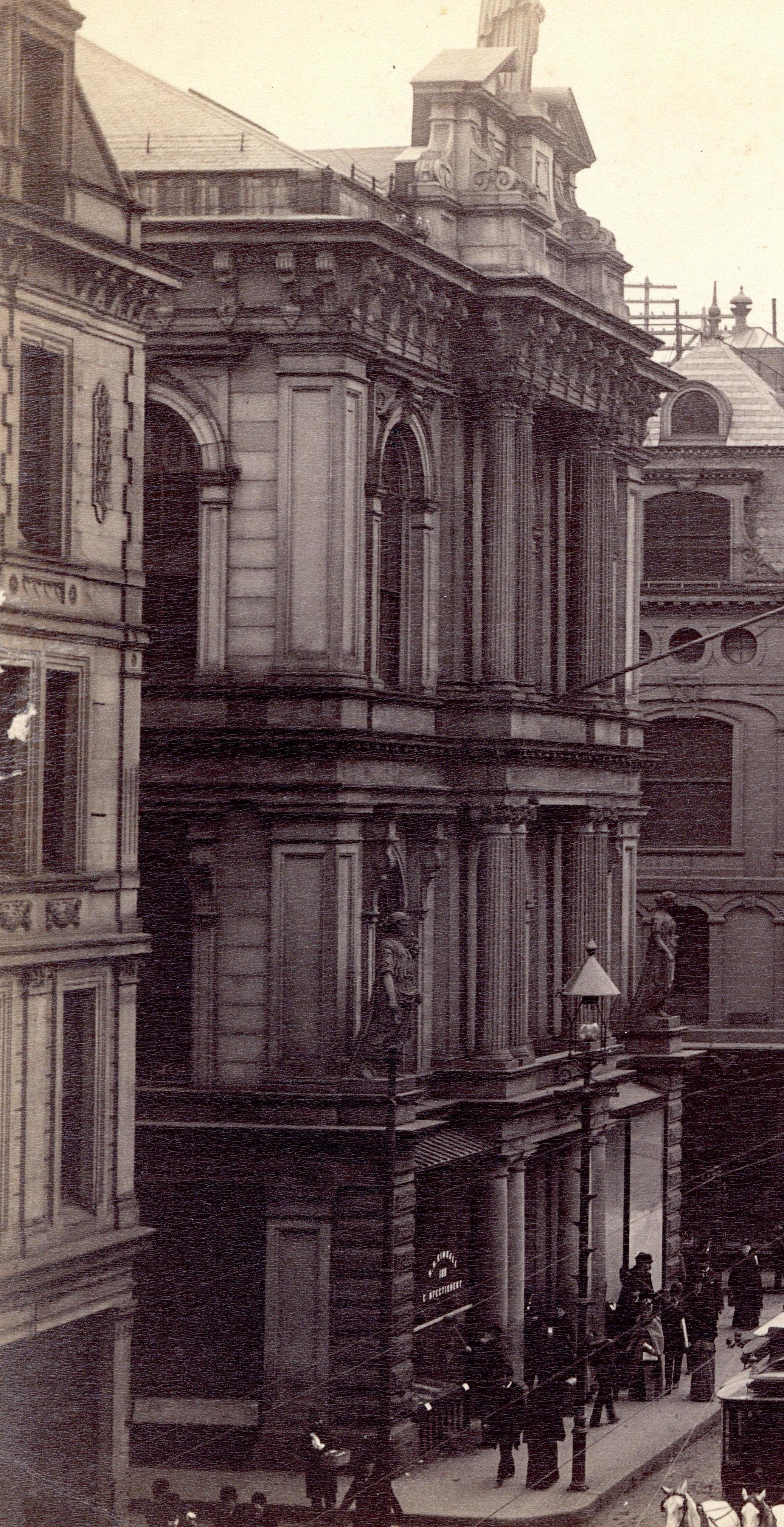 Title: Tremont Street, old Horticultural Hall on left Date: Circa 1891 Source: Transit Department photograph collection, 8300.002 File name: 8300002_004_010 Rights: Public Domain Citation: Transit Department photographs, Collection 8300.002, City of Boston Archives, Boston